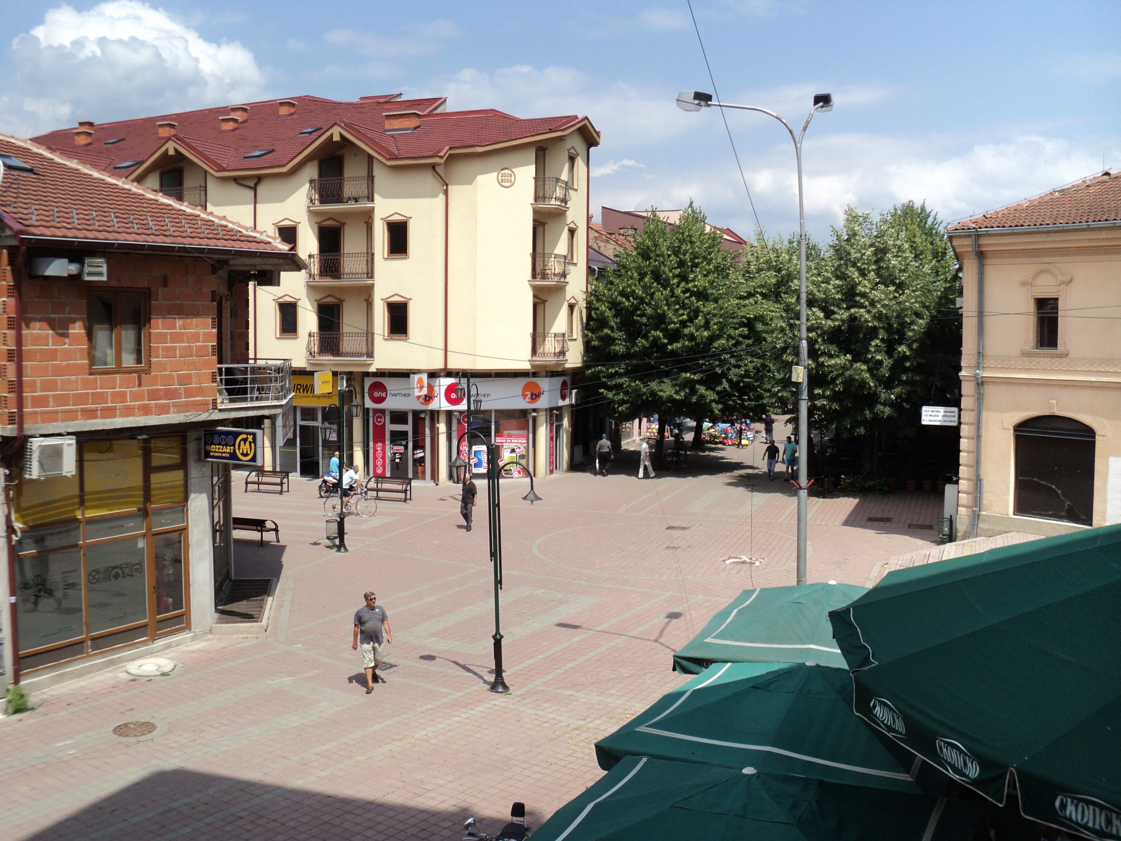 General view at the center of Kičevo.